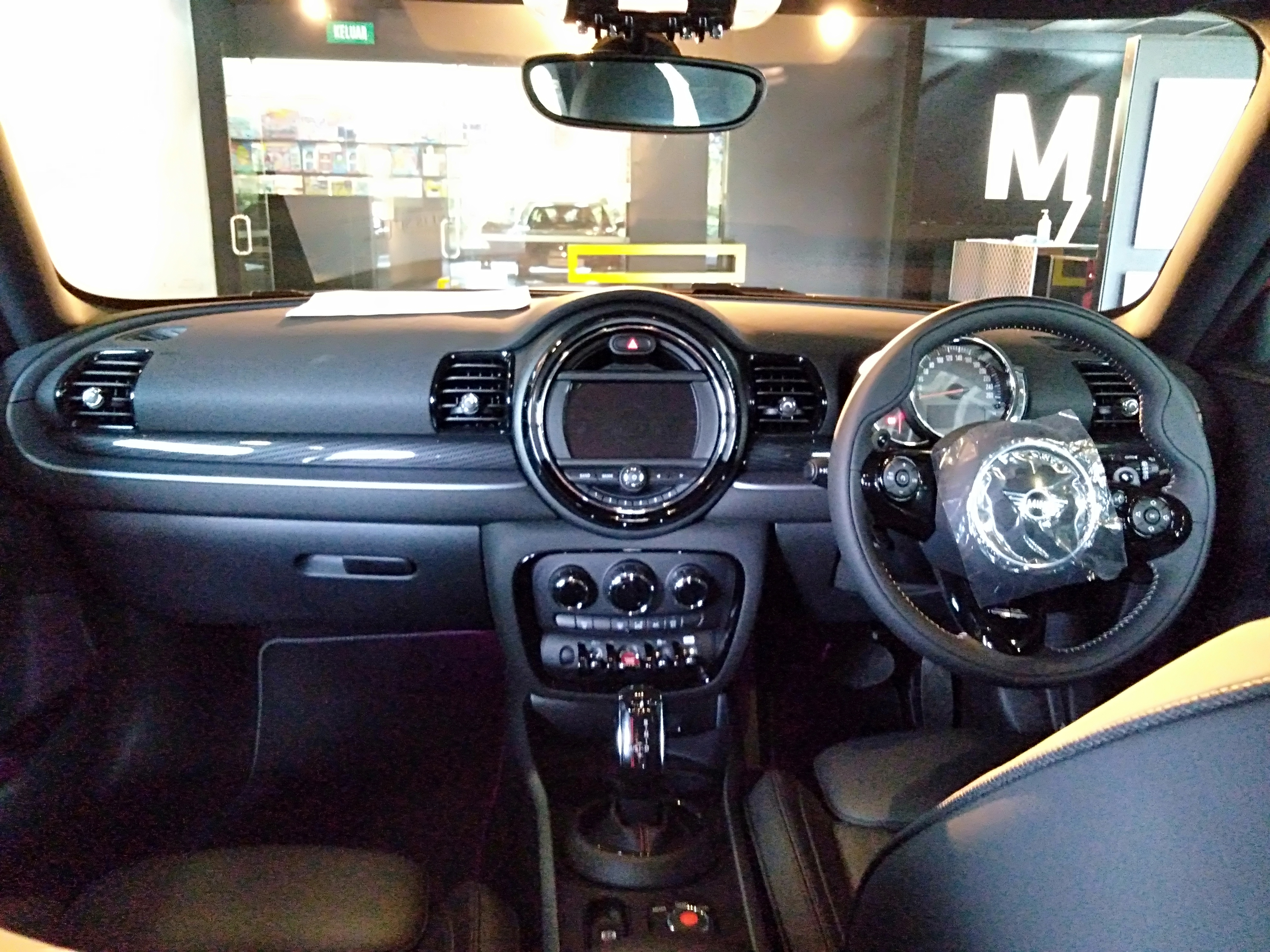 2021 MINI Clubman Cooper S LCI interior view finished in red. Photographed at QAF Auto Mini Showroom, Mabohai Shopping Complex, Brunei.